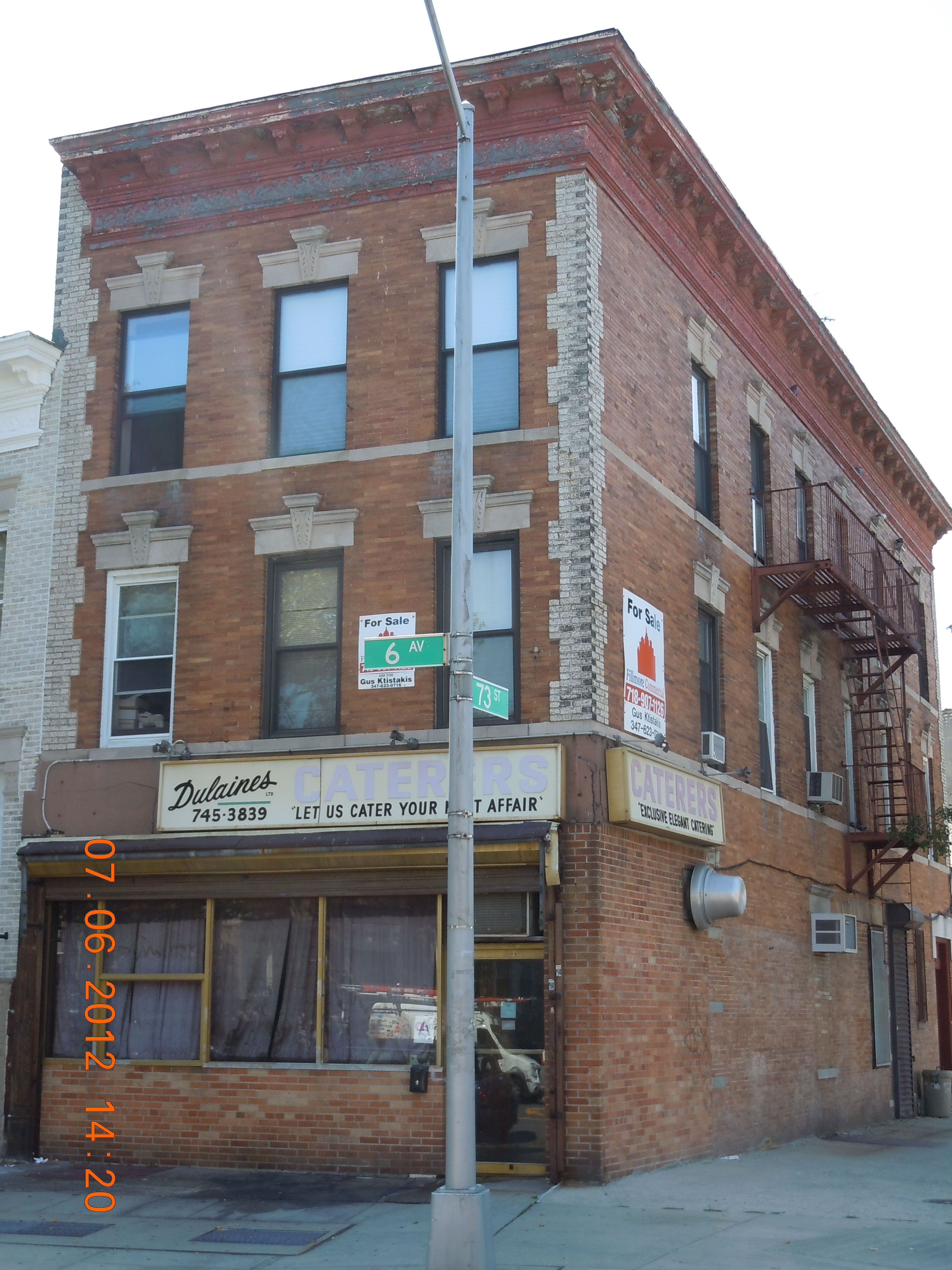 73rd Street & 6th Avenue Storefront 2012